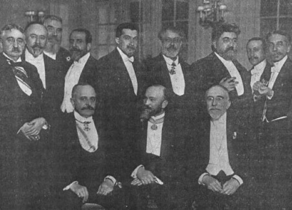 A Franco-Romanian festivity in Paris, late 1914: the Romanian mission, comprising supporters of Romania's entry into World War I, welcomed by French public figures. Front row, seated, from left: Ioan Lahovary, Romanian Ambassador to Paris; George Diamandy, Member of the Romanian Chamber of Deputies; Georges Lacour-Gáyet, French historian. Back row, standing, from left: Stéphen Pichon, former Foreign Minister of France; Milenko Vesnić, Serbian Ambassador to Paris; Denys Cochin, French writer and Member of the National Assembly; Athos Romanos, Greek Ambassador to Paris; Emil Costinescu, Member of the Romanian Chamber of Deputies; Jean Richepin, French writer; Ion Cantacuzino, Romanian physician and political activist; Joseph Aulneau, Secretary to the President of the French Chamber of Deputies; Dimitar Stanchov, Bulgarian Ambassador to Paris.